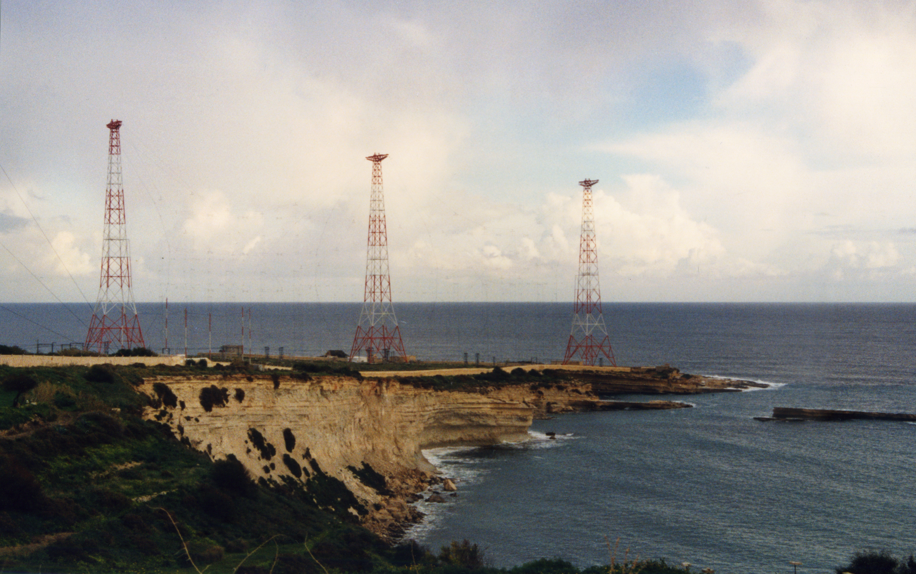 Short wave transmitter antennas of the short and medium wave radio station Malta Cyclops of the german international broadcaster Deutsche Welle, as of 30. January 1996.